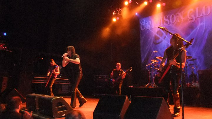 Crimson Glory, playing at Konzertfabrik Z7 in Pratteln, Switzerland